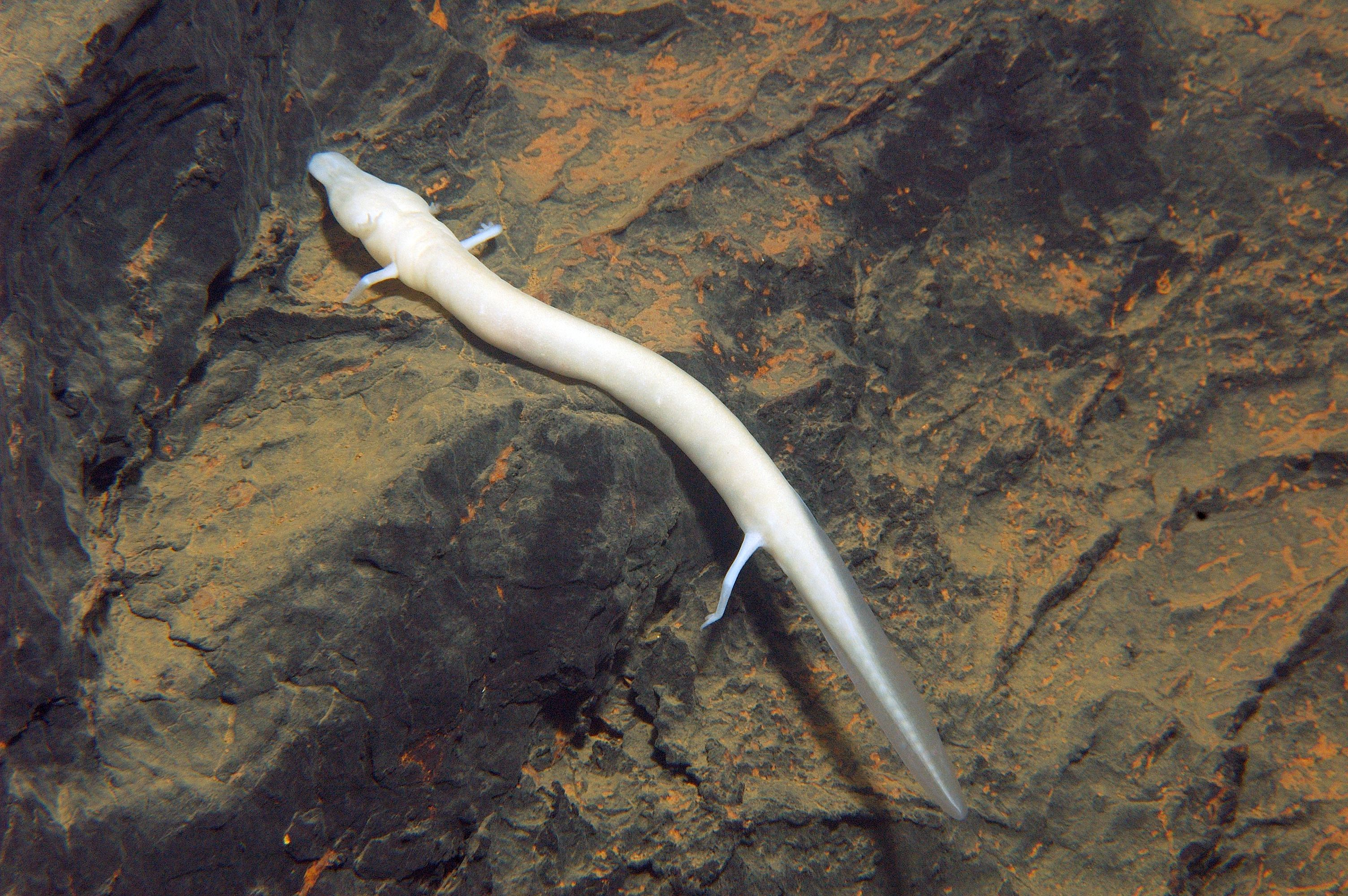 RIJETKE ŽIVOTINJE U NP UNA